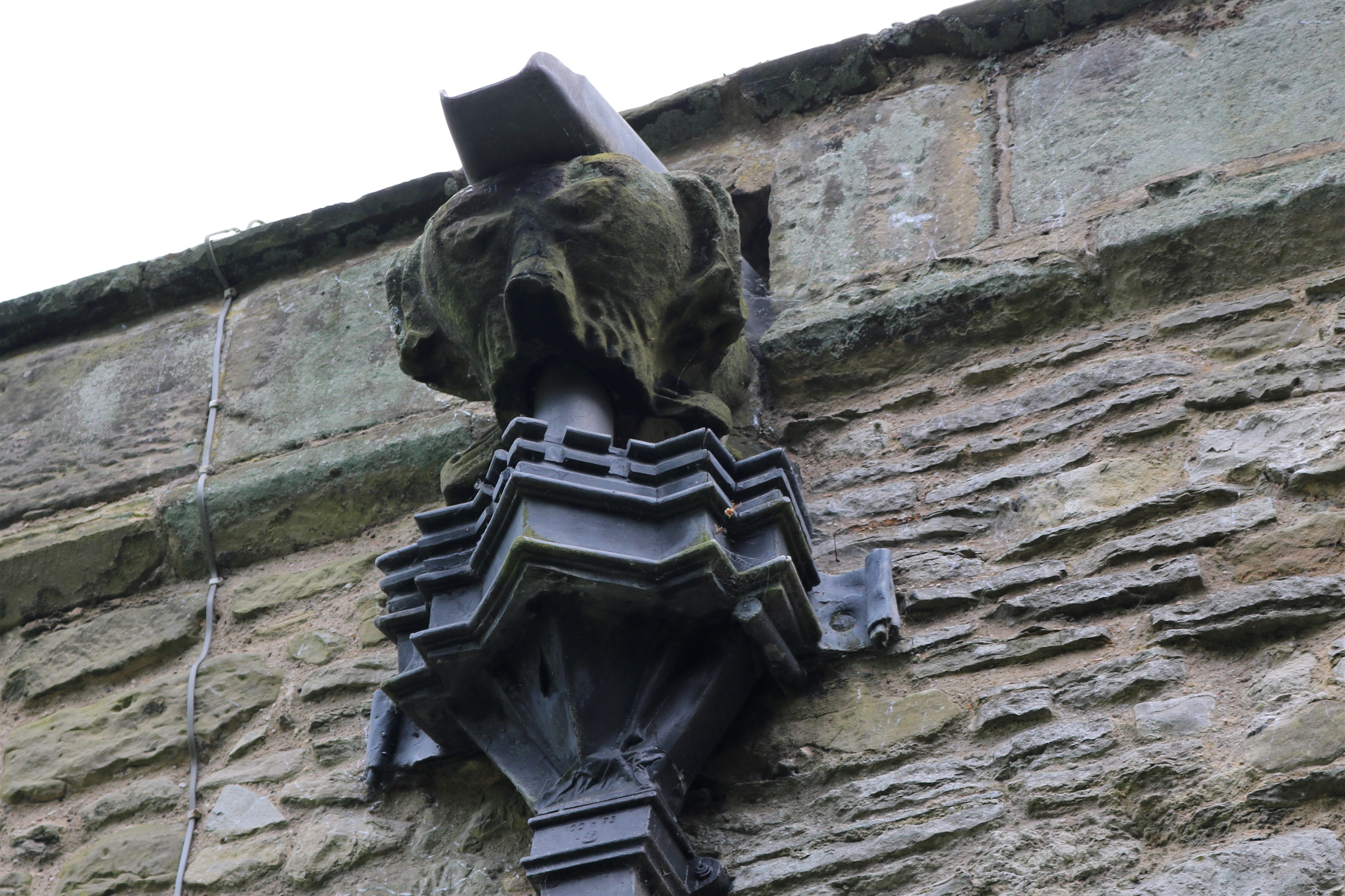 The gargoyle on the eastern part of the north-chancel wall at St James' Church in Normanton on Soar.